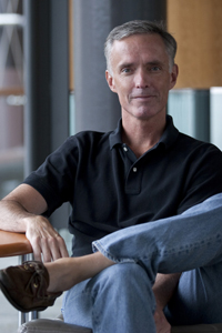 Jim Collins